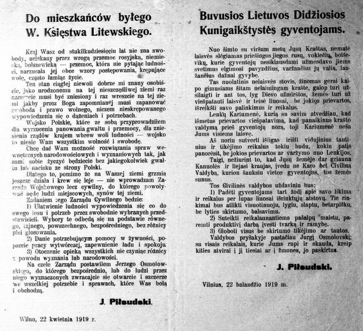 Józef Piłsudski's appeal to the People of the former Grand Duchy of Lithuania